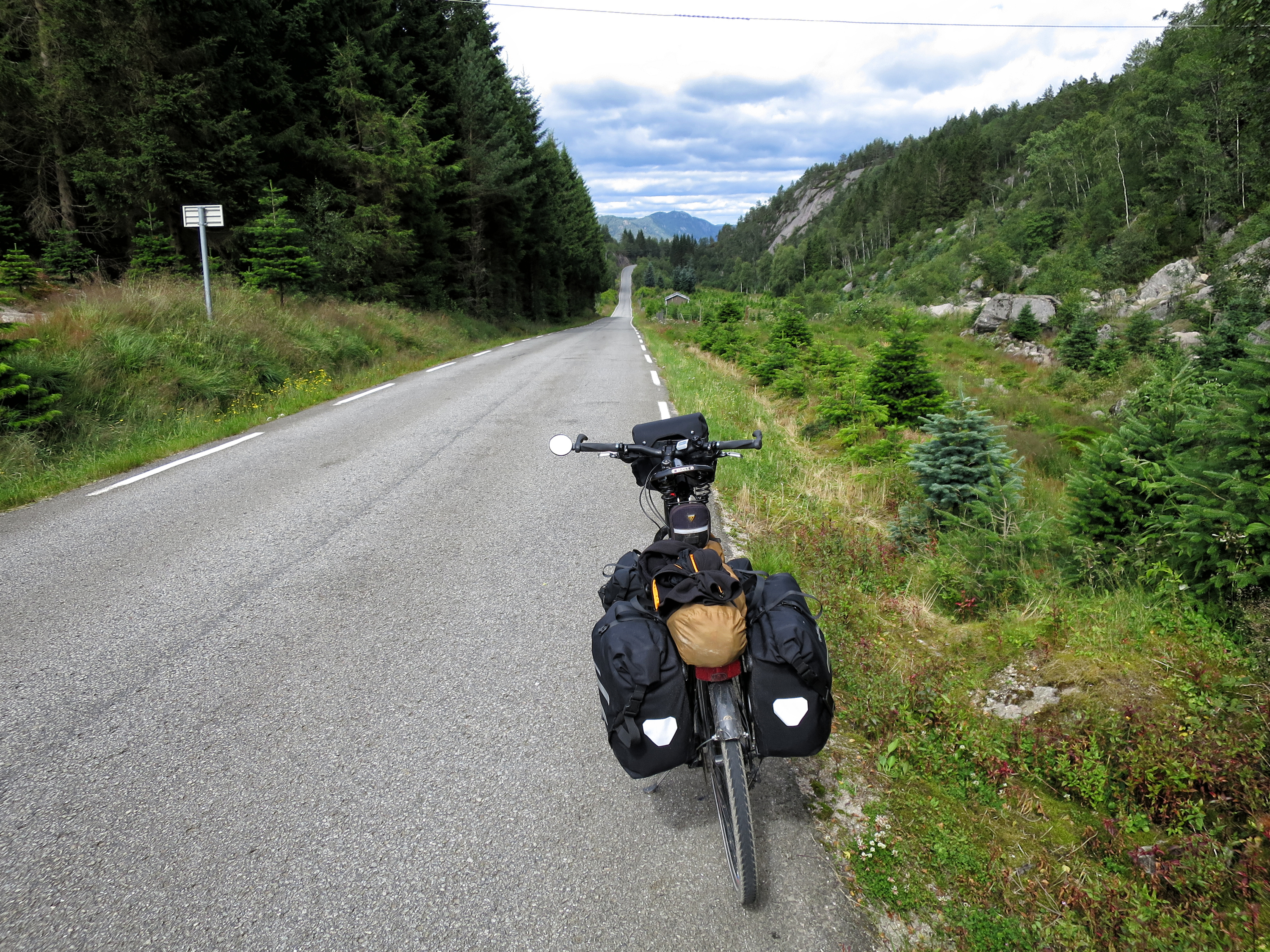 EuroVelo 12 - North Sea Cycle Route in Norway.